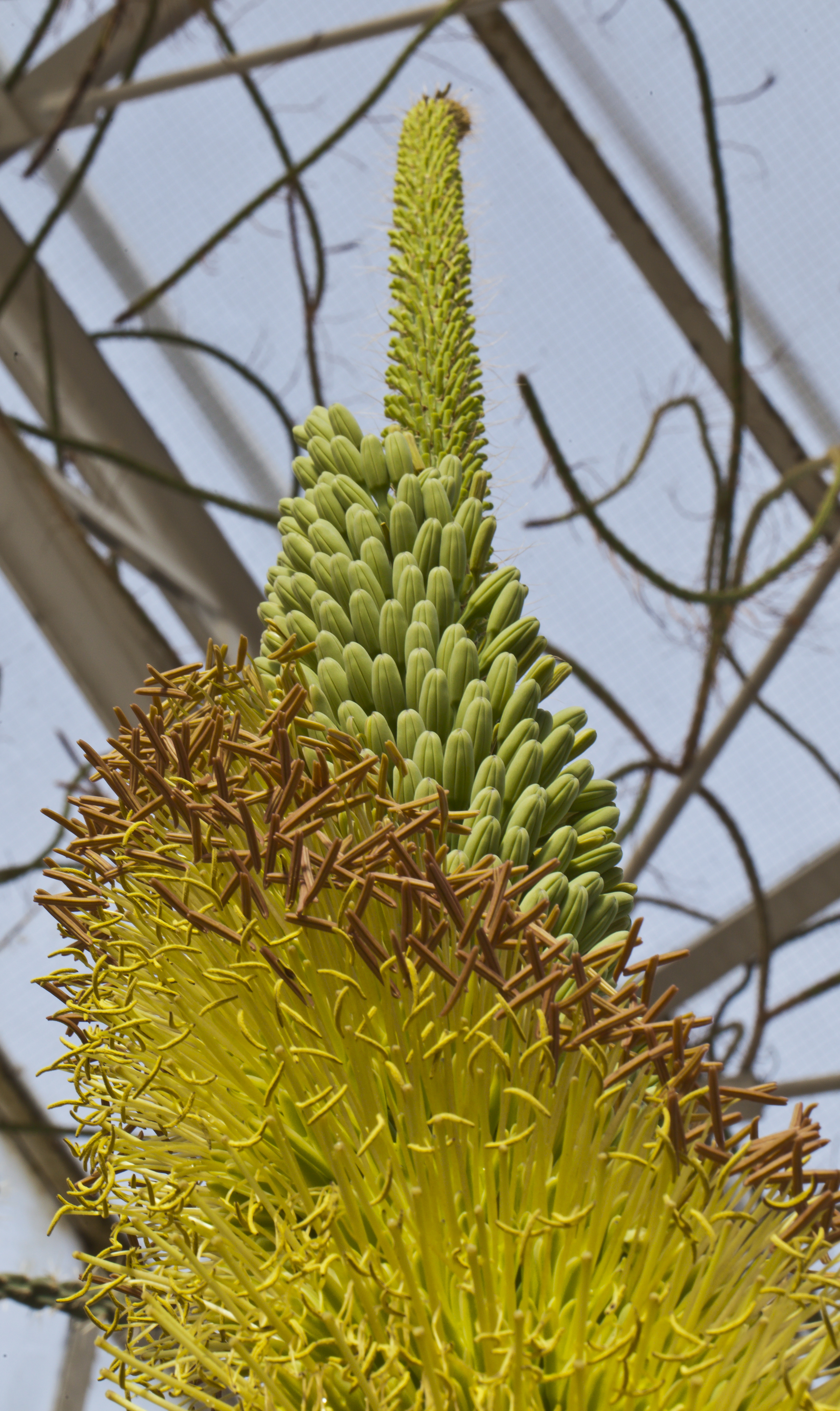 Agave attenuata, Munich Botanical Garden, Germany